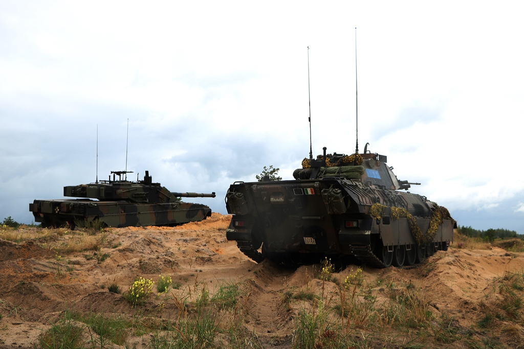 Italian Army - 4th Tank Regiment: Ariete main battle tank, and 1st Bersaglieri Regiment: Dardo infantry fighting vehicle in Latvia as part of NATO's Enhanced Forward Presence, August 2019